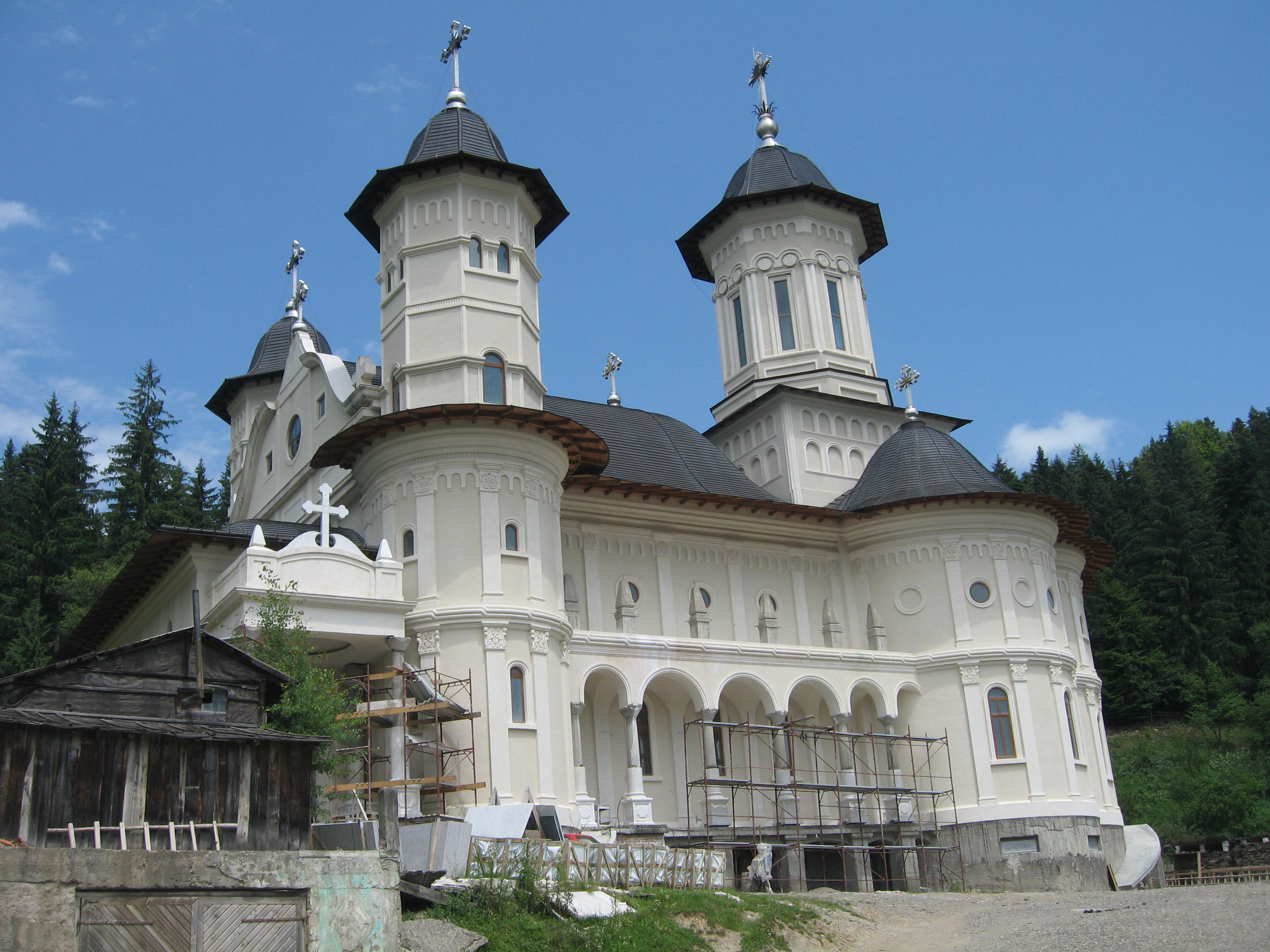 Mănăstirea Slătioara